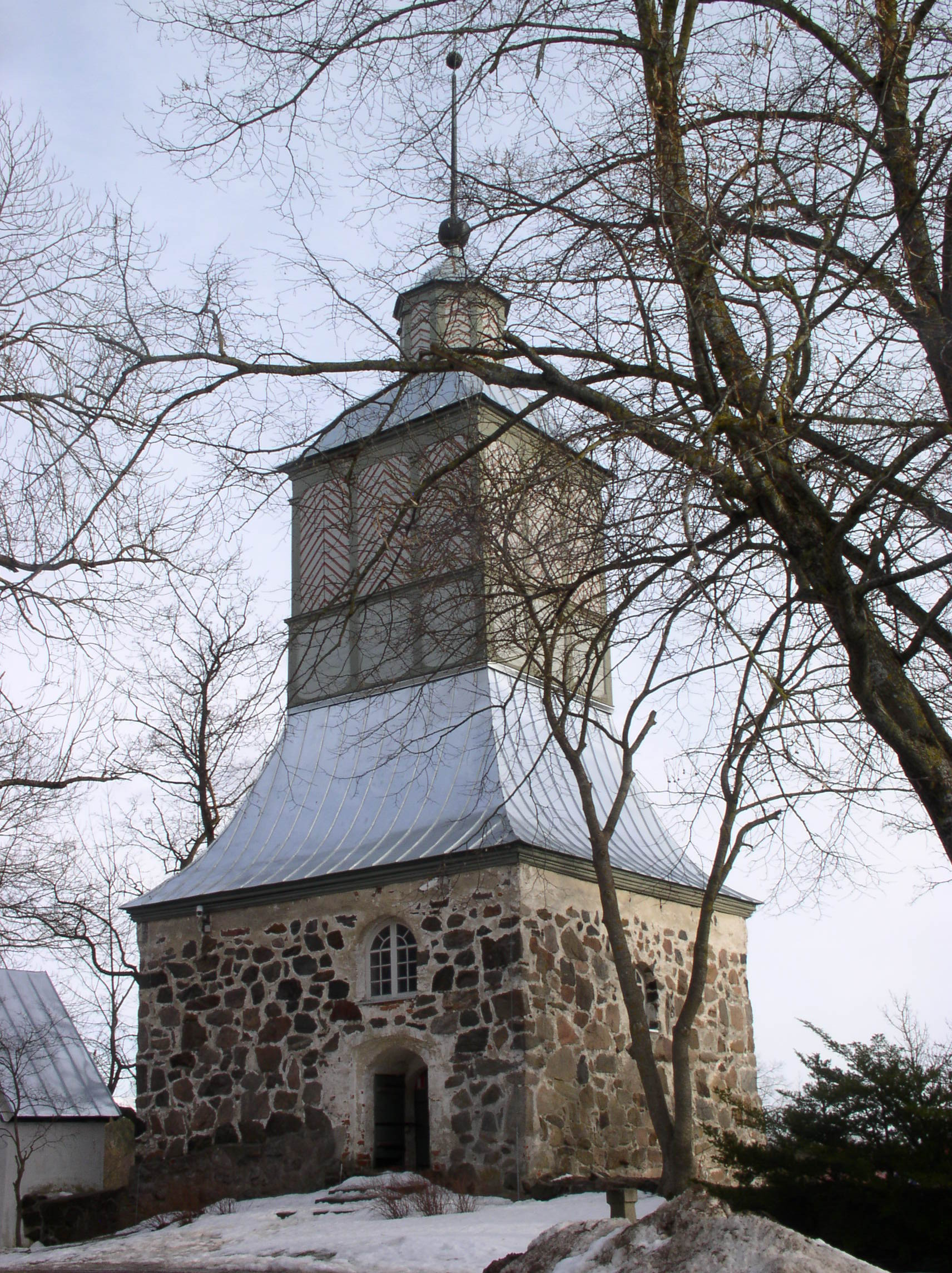 Pargas church bell tower in Väståboland (previously Pargas), Finland.